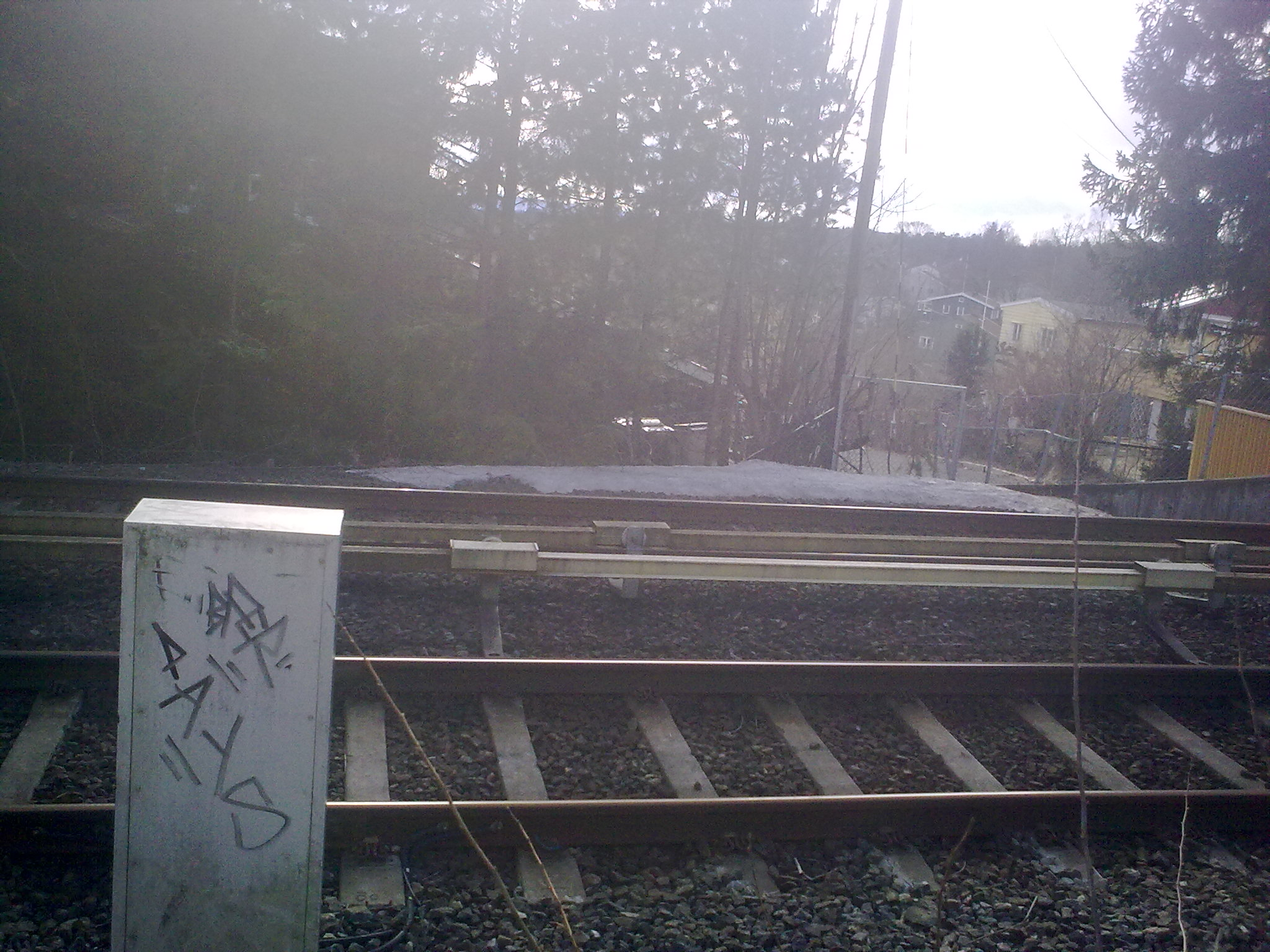 The disused Nordberg station on the Sognsvann Line Norsk (bokmål): Den nedlagte stasjonen Nordberg på Sognsvannsbanen